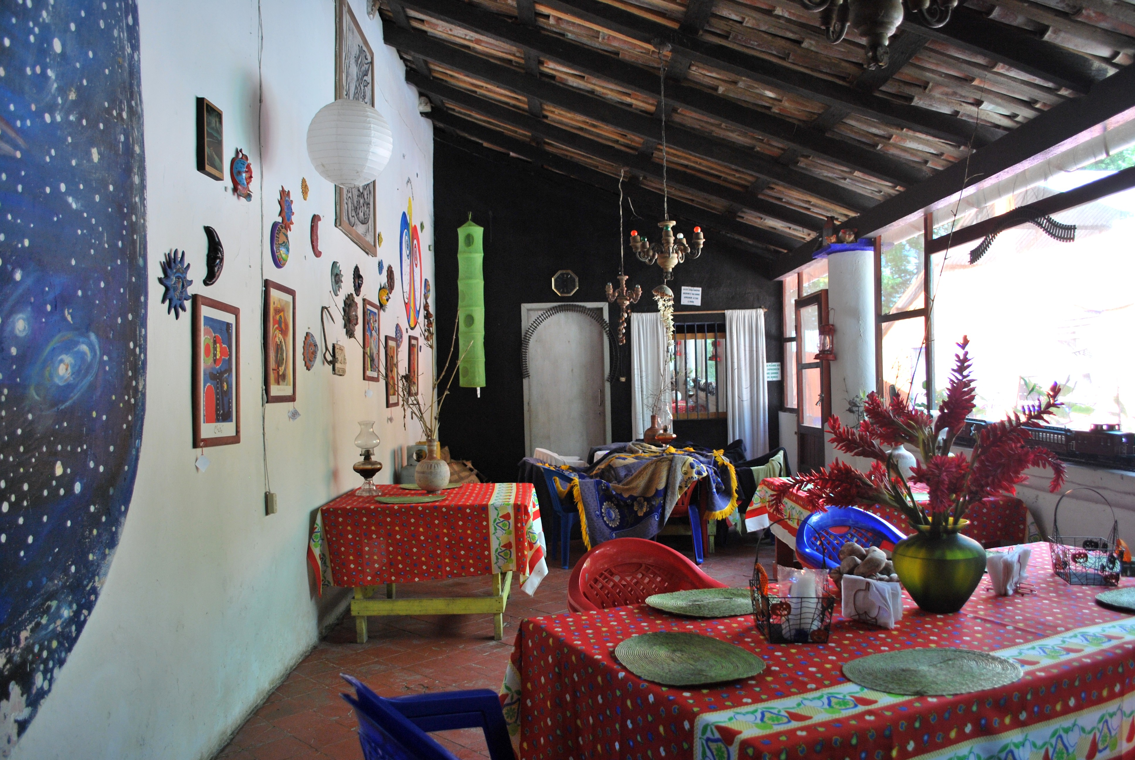 Dining area of the main house of the La Chonita Hacienda in Tabasco, Mexico